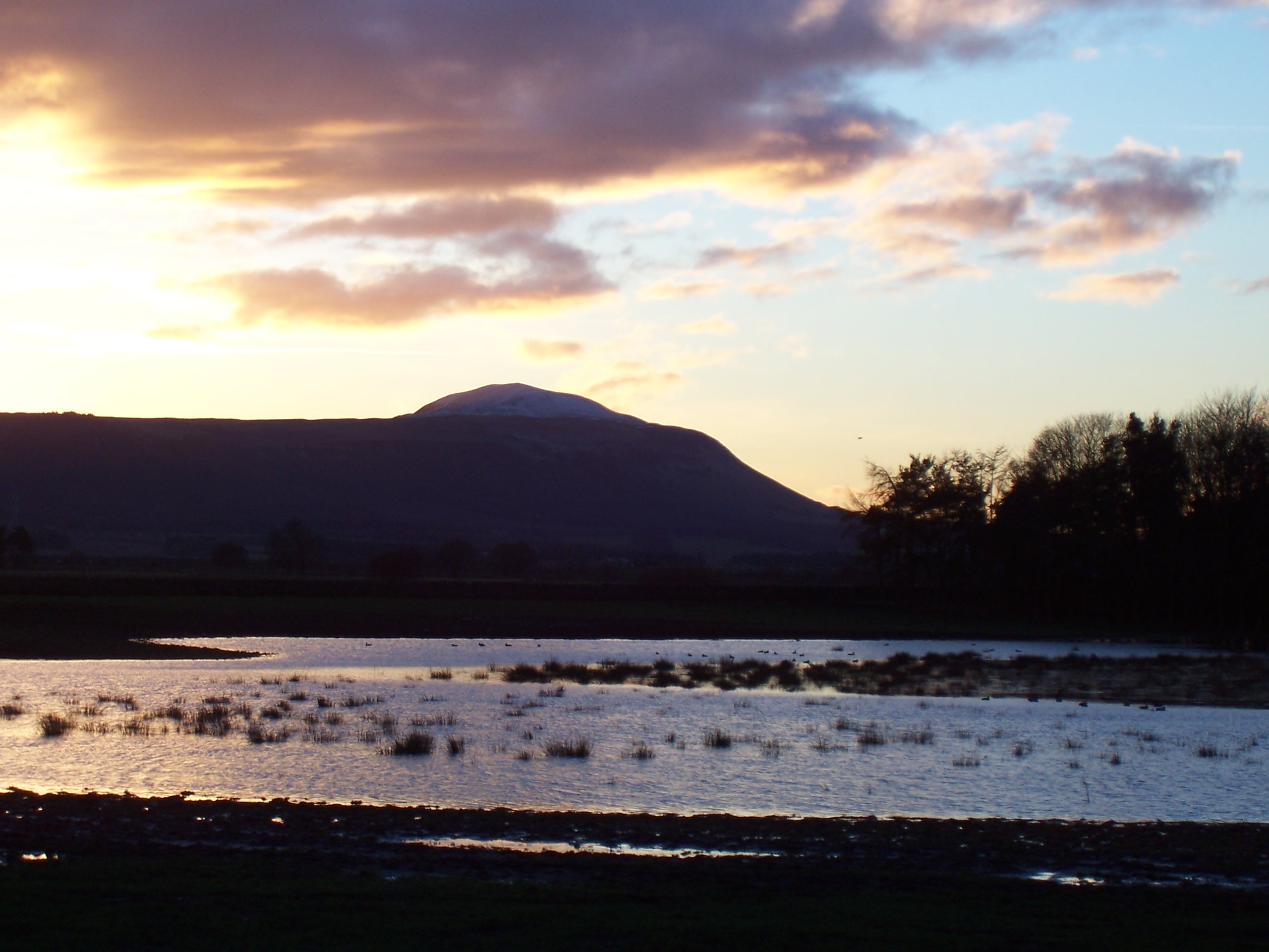 West Lomond at sunset from near easter Kilwhiss in the Howe of Fife Taken by myself 01/07